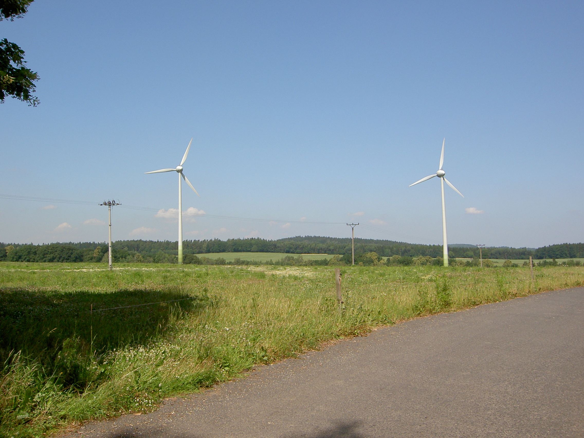 Village Jindřichovice pod Smrkem, Czech Republic, Wind turbines